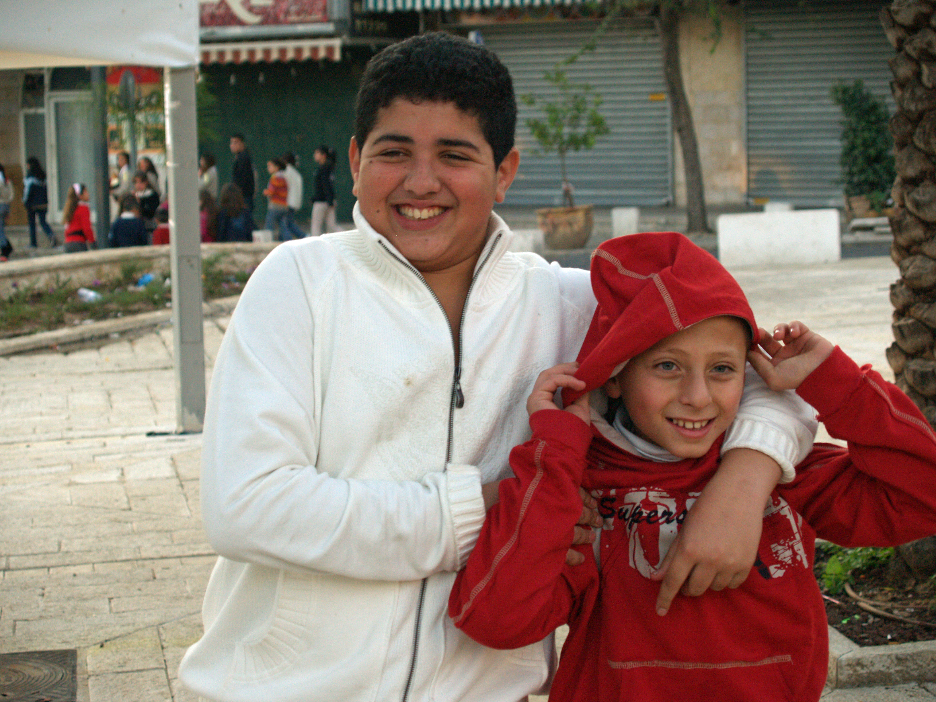 Palestinian children in Nazareth